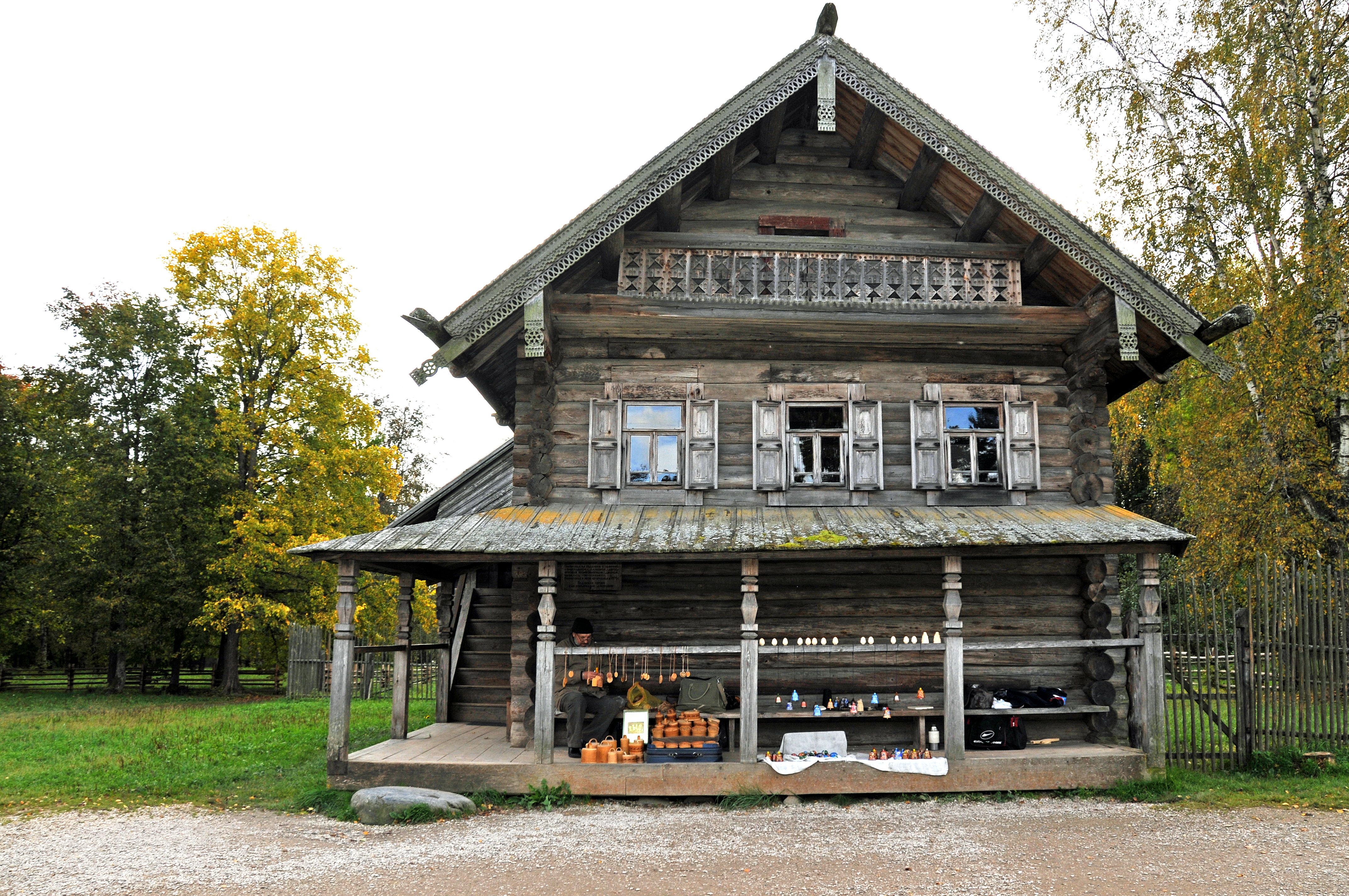 Other log house in the museum area, some have items for sale. These houses are very large.